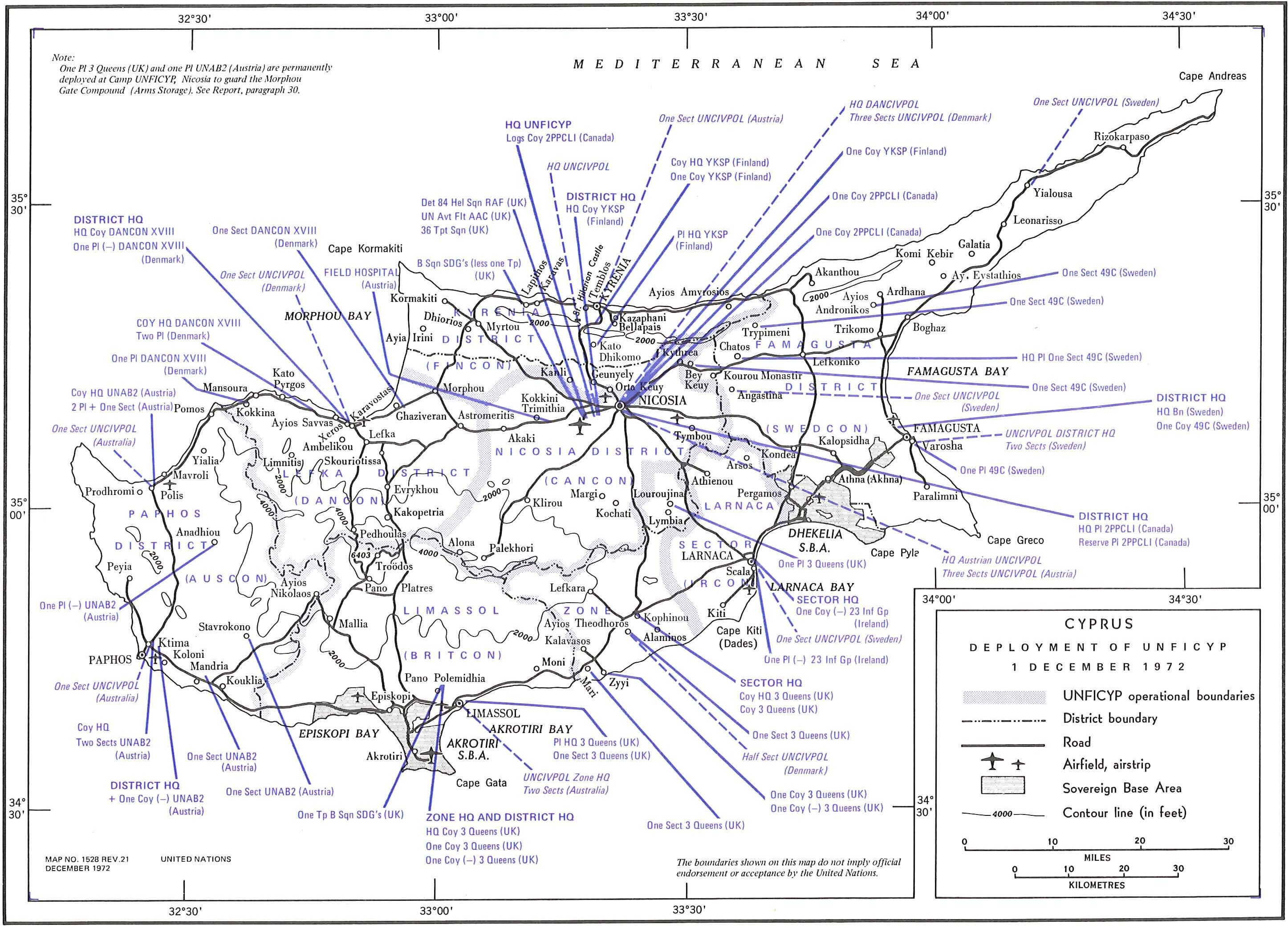 A map showing the deployment of UNFICYP in December 1972, including the force's sector boundaries and important installations.